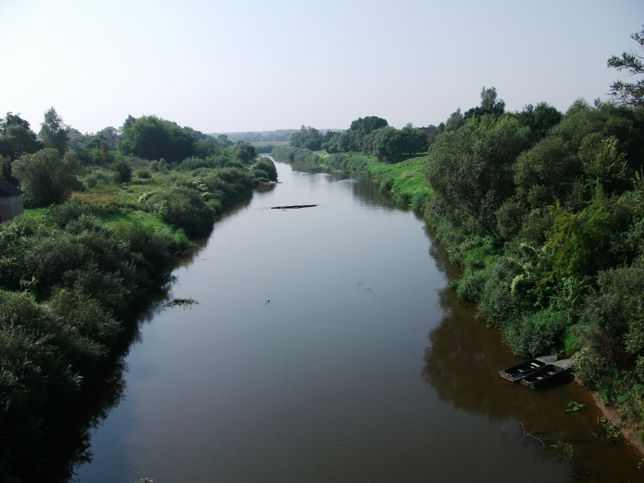 Drysa river in Verkhnyadzvinsk. Vitebsk Region, Belarus